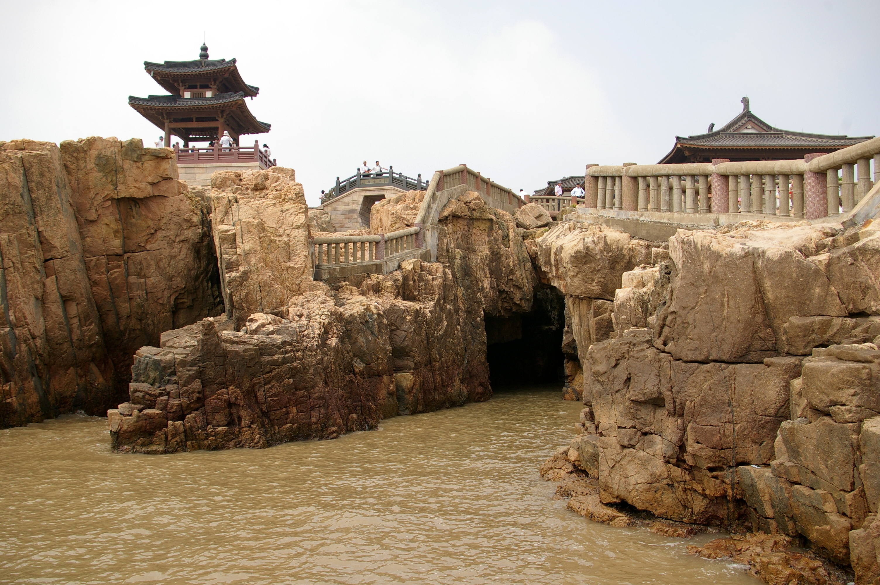 Cave on Mount Putuo island